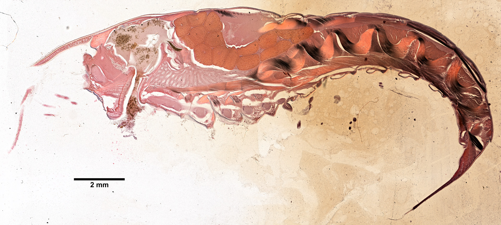 PRESERVED_SPECIMEN; ; microslide; ; IZ number 97003; lot count 1; Microslide 01, balsam, serial section; Microslide 02, balsam, serial section; Microslide 03, balsam, serial section; Microslide 04, balsam, serial section; Microslide 05, balsam, serial section; Microslide 06, balsam, serial